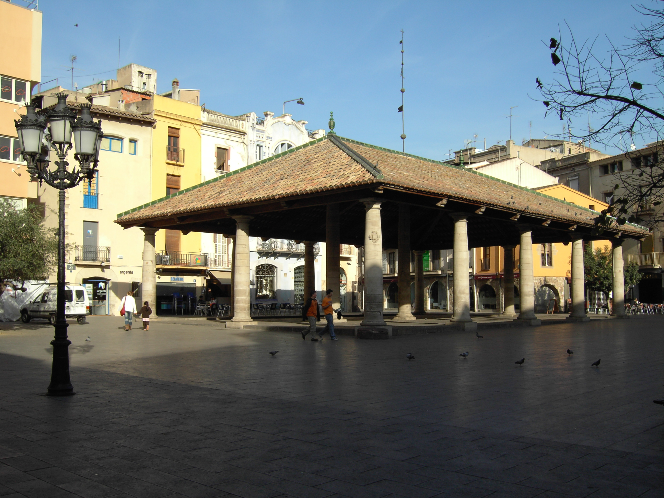 La Porxada in Granollers (Catalonia).